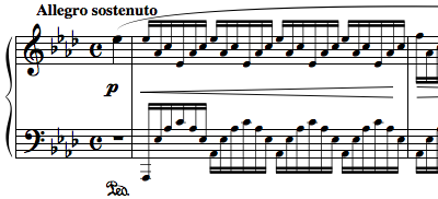 Excerpt from Chopin's Etude Op.25 No.1